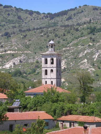 Bell Tower of "Saint Demetrius" in Ano Vrondou/Gorno Brodi, Aegean Macedonia, Greece